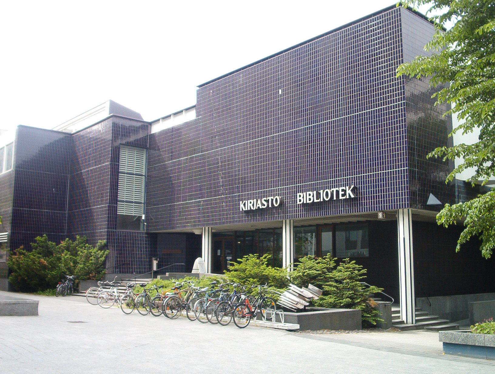 The main library of Helsinki City Library, Helsinki, Finland. -It is located in Pasila and is also known as Pasila library